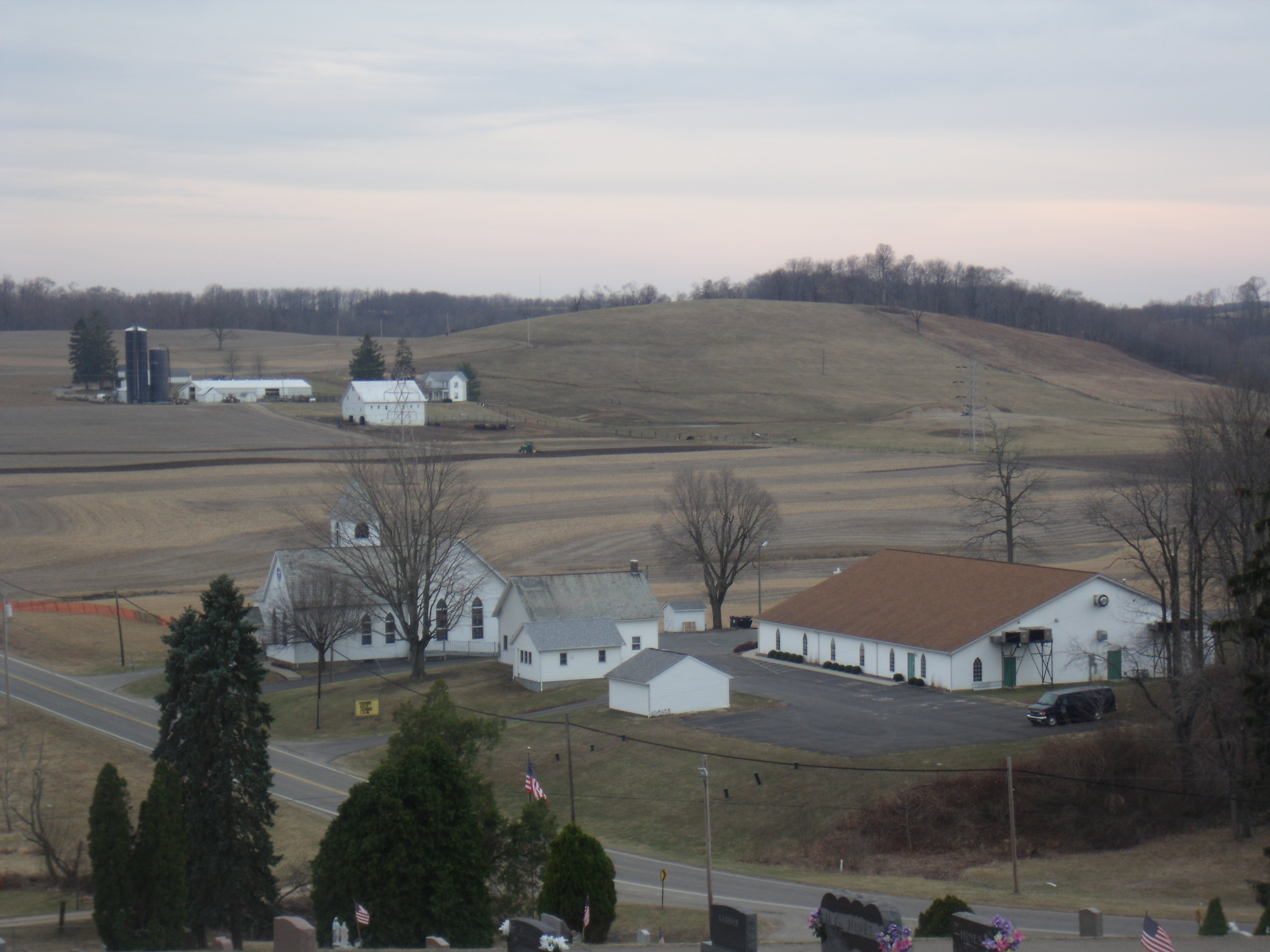 Rural Franklin Township